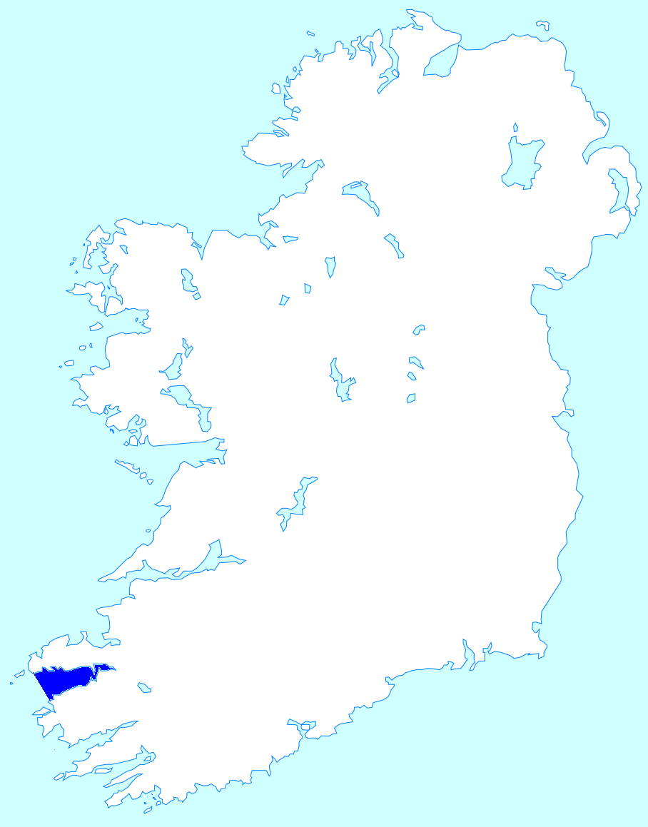 Location map of the Dingle Bay in Ireland